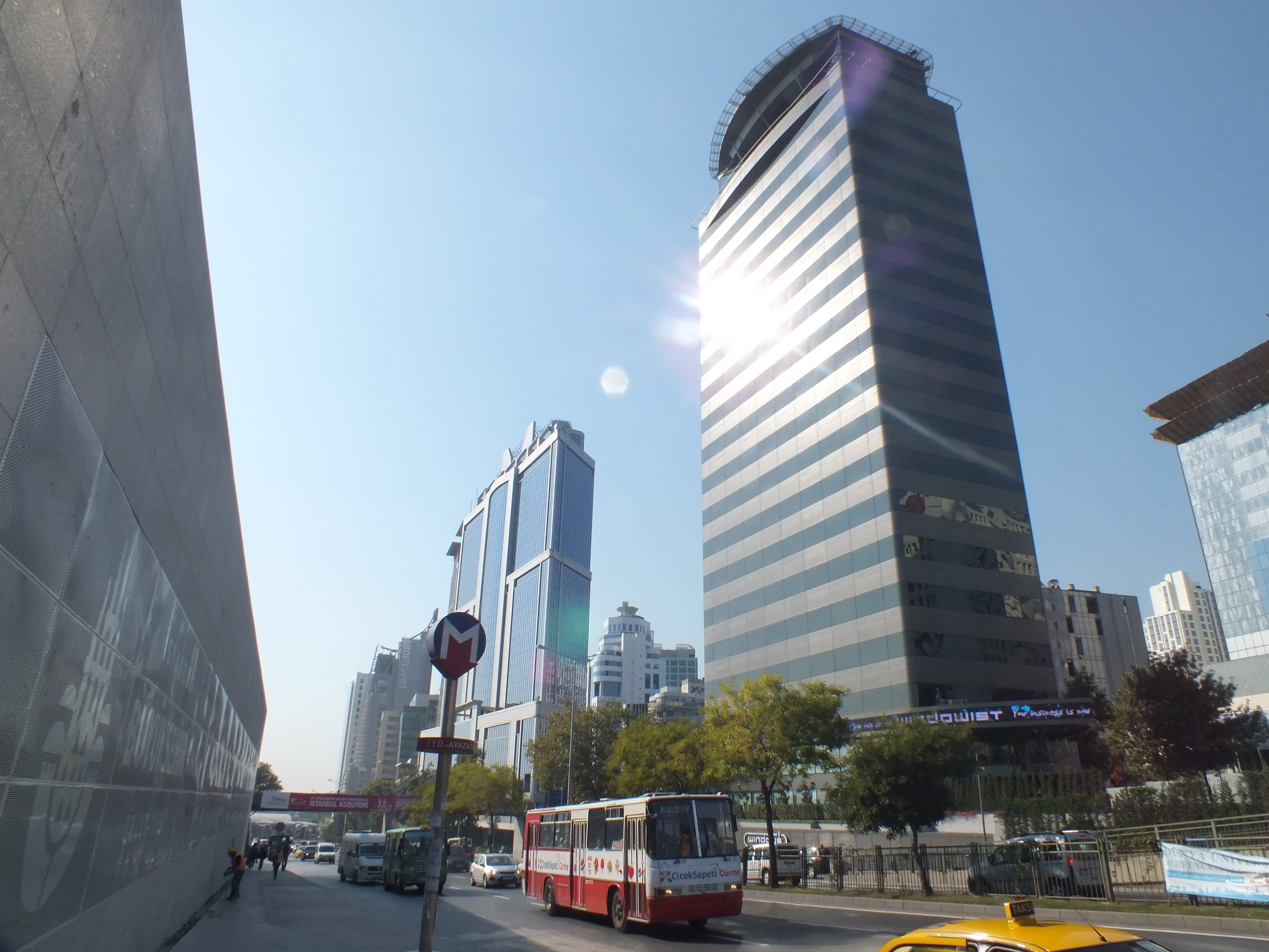 The entrance to İ.T.Ü.-Ayazağa station.